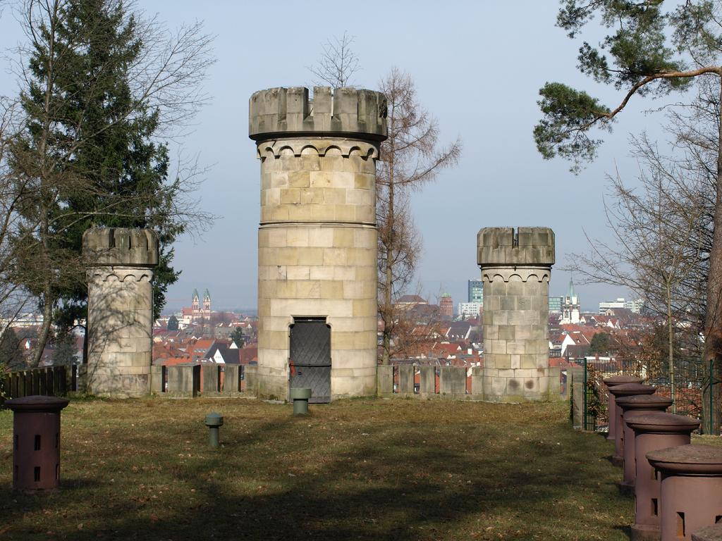 Freiburg in Breisgau, Baden-Württemberg (Germany): water-castle, photo 2009